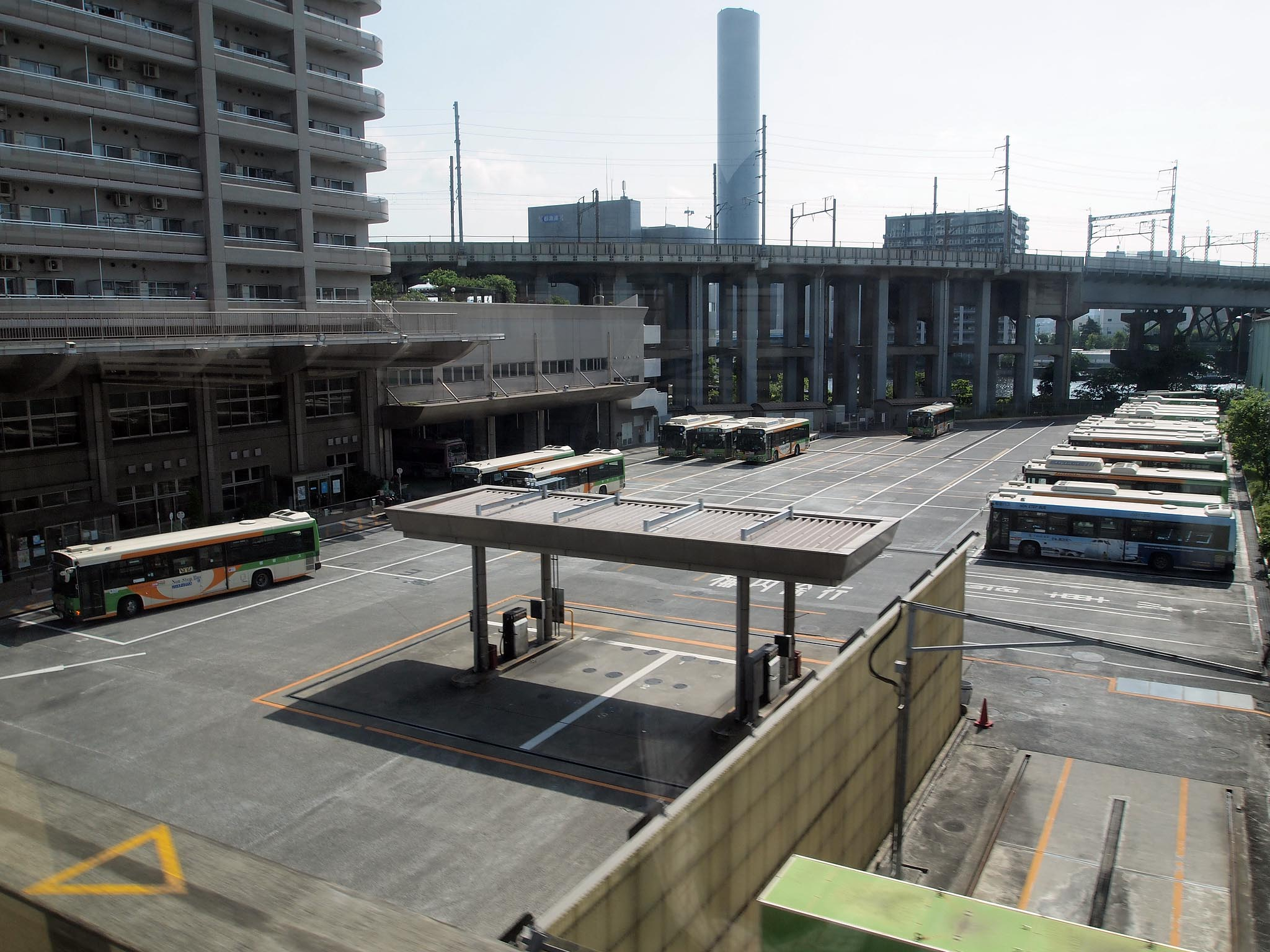 Toei Bus Ko-nan Yard, view from Tokyo Monorail Haneda Line.